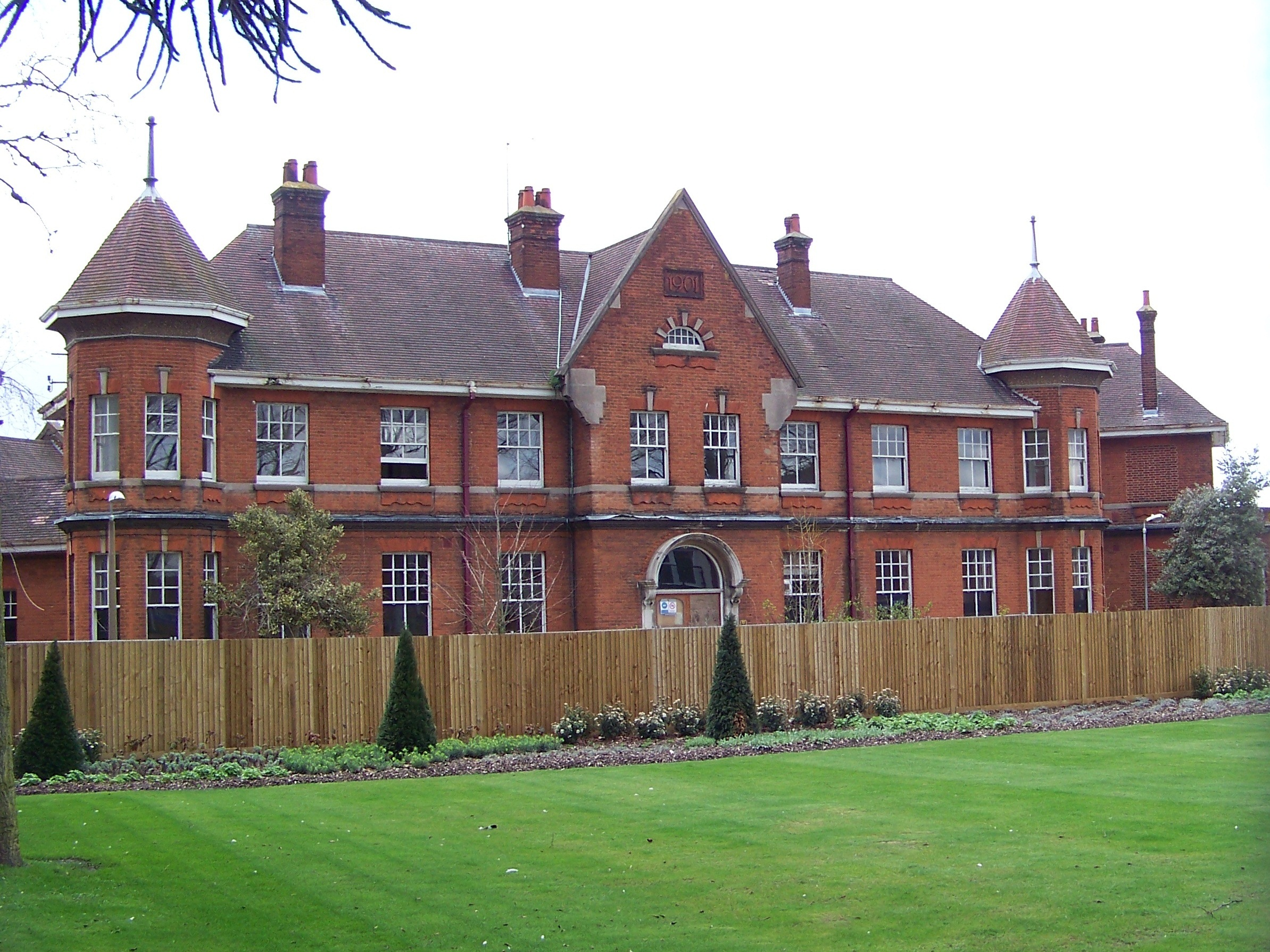 The Administration Block of St. Ebba's Hospital standing disused in 2010